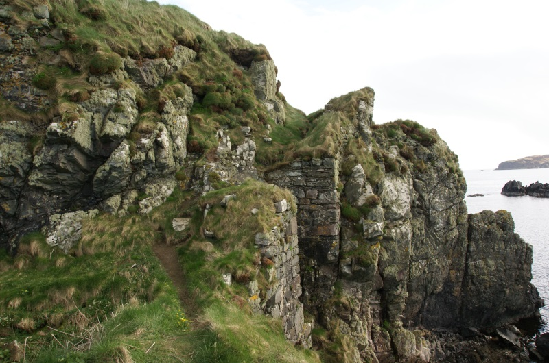 Dunyvaig Castle, Islay, Argyll and Bute, Scotland. From inner courtyard towards the keep.